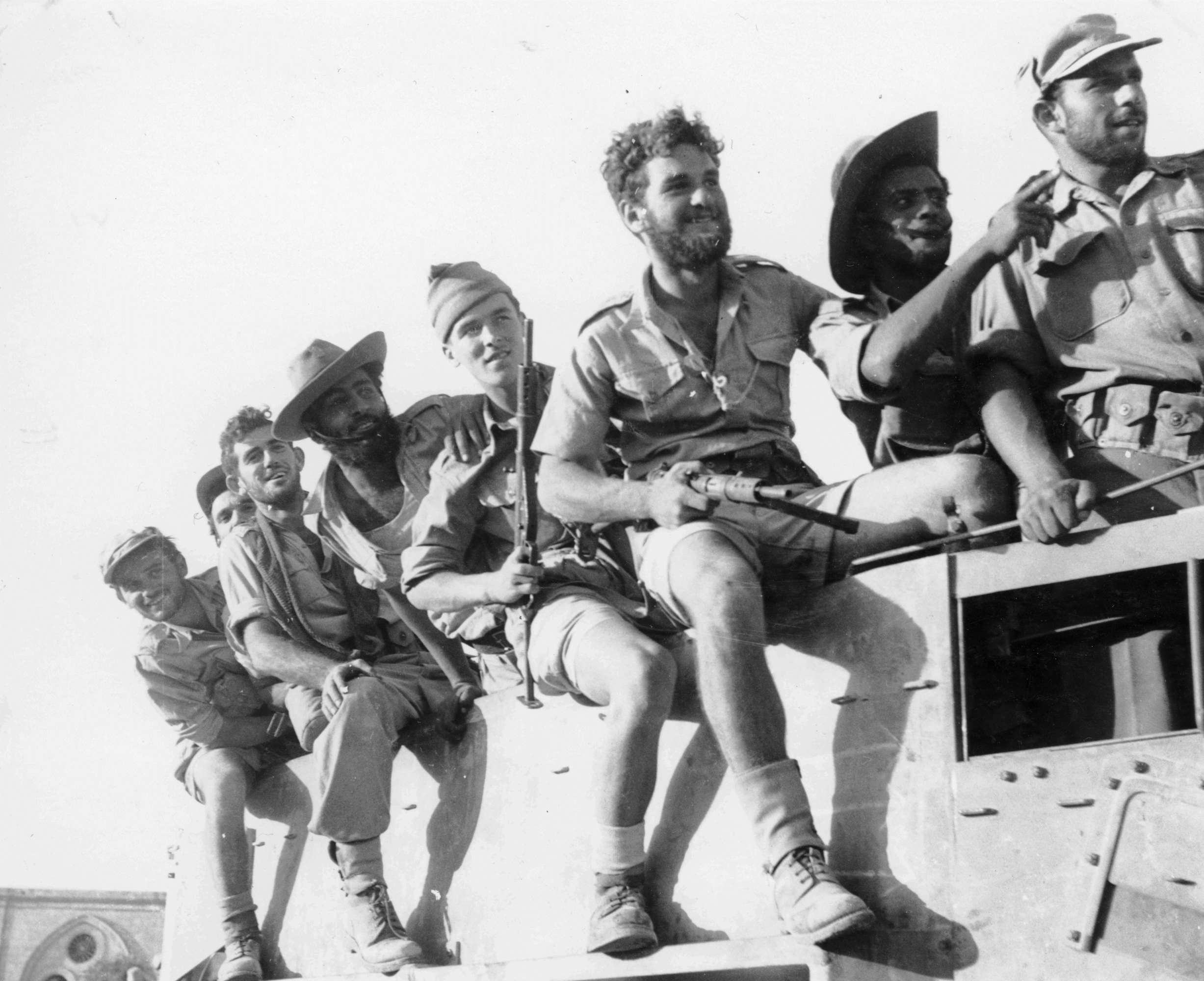 The Palmach, Israel Defense Forces